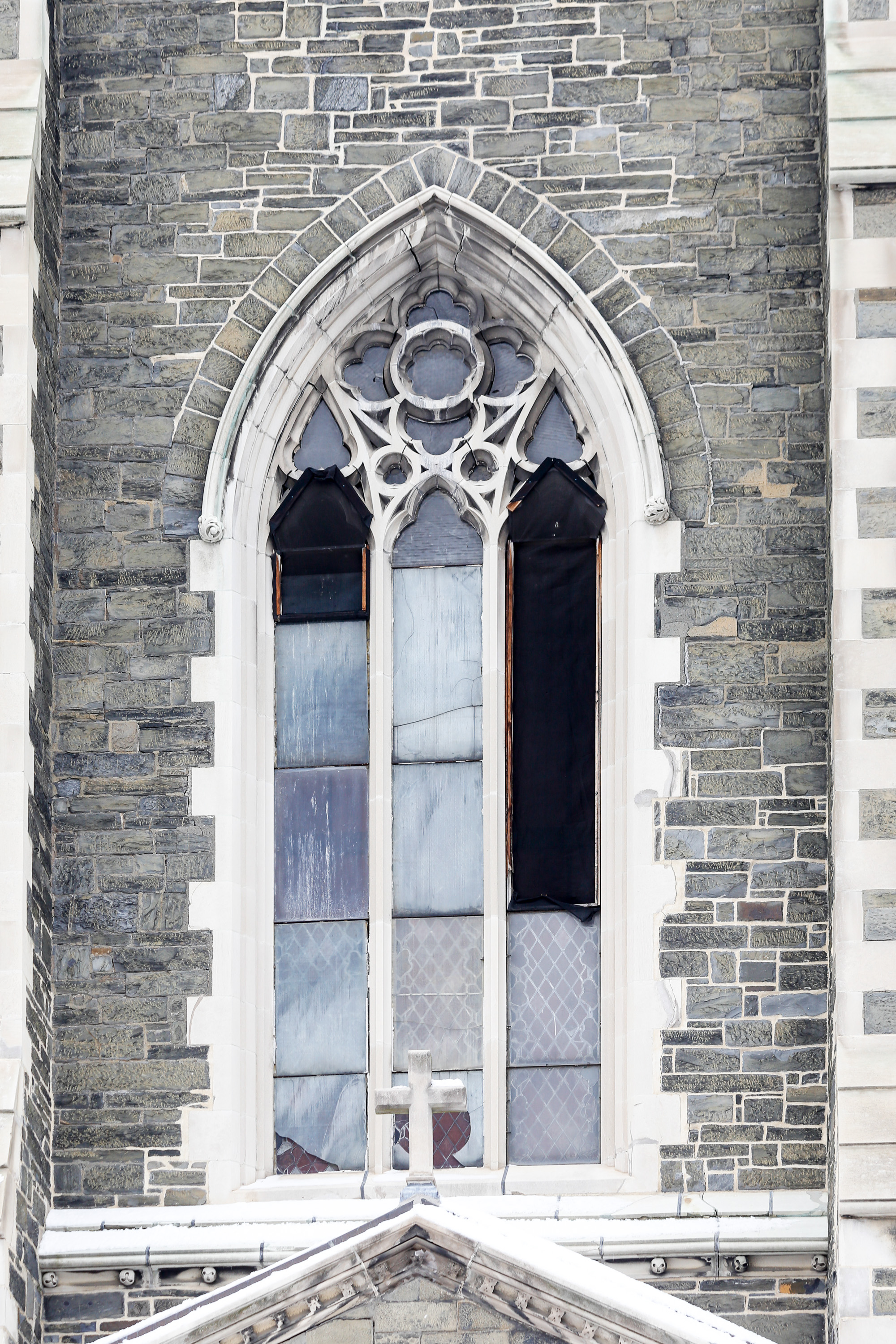 St. Joseph's Church is a historic Gothic church in the Ten Broeck Triangle section of Albany, New York's Arbor Hill neighborhood.